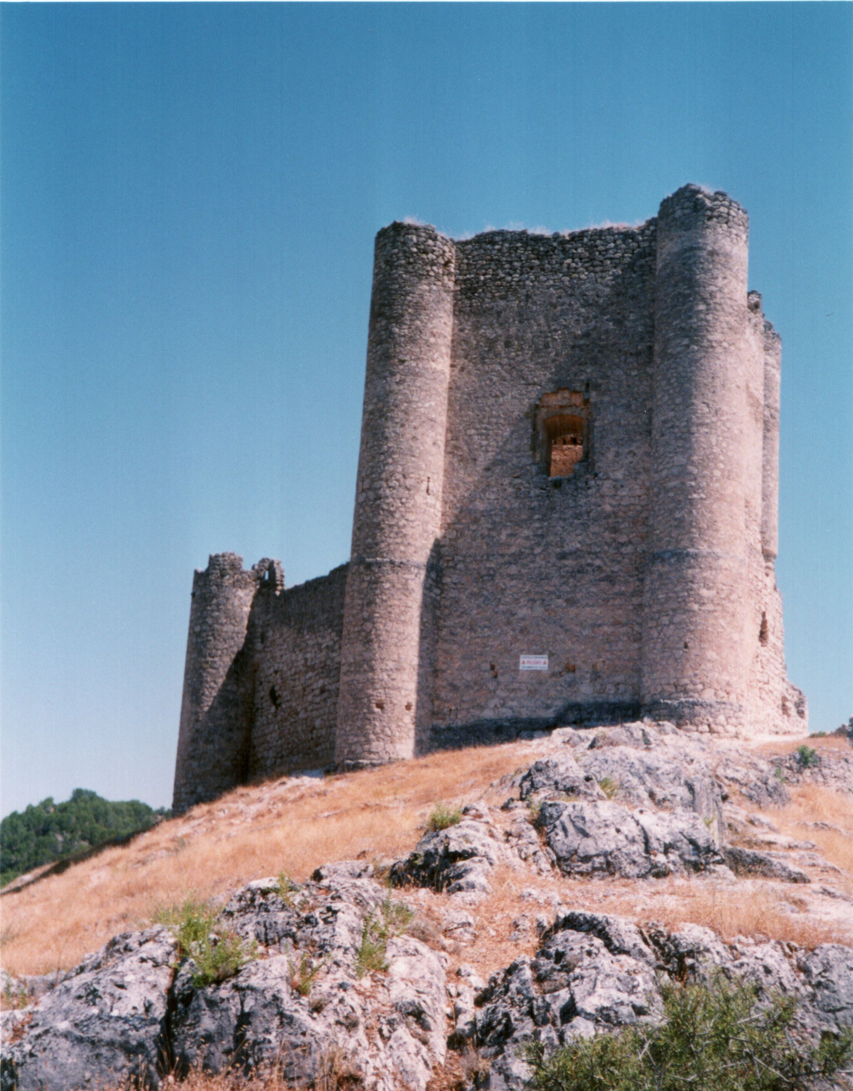 Castle of Anguix, Sayatón, Guadalajara (Spain).